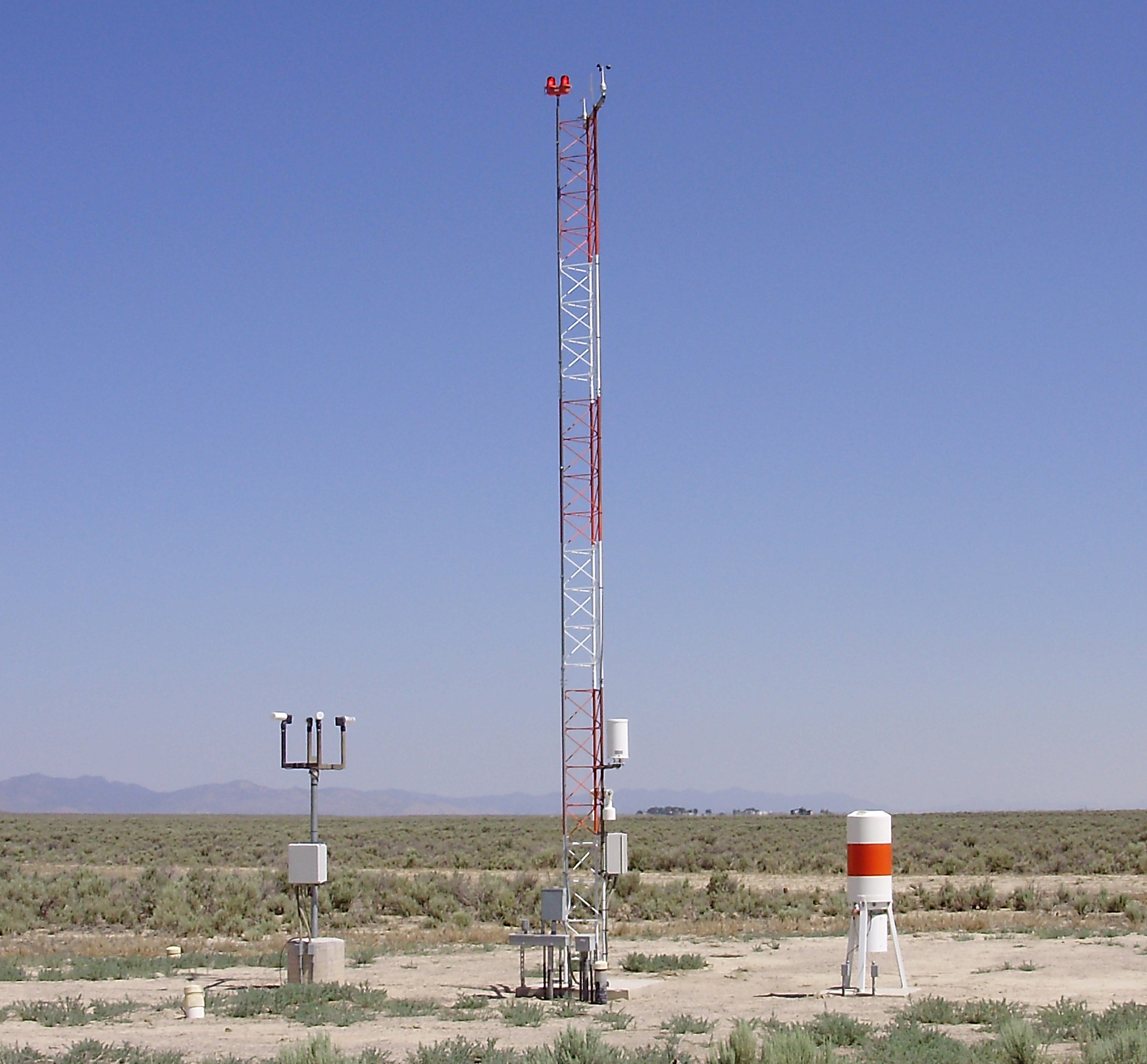 Eureka Airport AWOS viewed from the south cropped